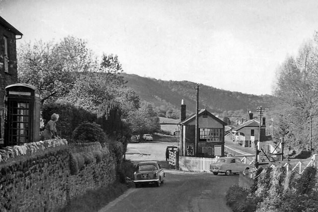 Bronwydd Arms Station, entrance. View northward, towards Aberystwyth; ex-Great Western Carmarthen - Aberystwith line. The station along with the line was closed essentially on 22/2/65, but remained open until 1973 (mainly for milk traffic!)southward from Felin Fach on the Aberayron branch via Lampeter down to Carmarthen. Then the Heritage Gwili Railway acquired Bronwydd Arms Station and to date (2010) have restored a railway for several miles northwards, aiming to restore the line all the way from Carmarthen to Llanpumpsaint.